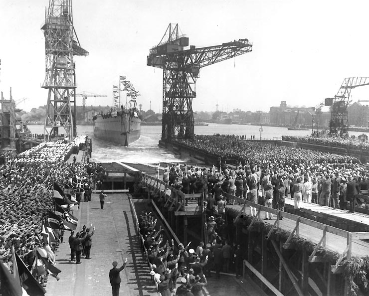 Launching of the German "pocket battleship" Admiral Graf Spee at Wilhelmshaven, Germany, on 30 June 1934. Note flags bearing the National Socialist emblem, and Nazi salutes being given by most of those present.